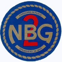 Naval Beach Group Two, unit patch